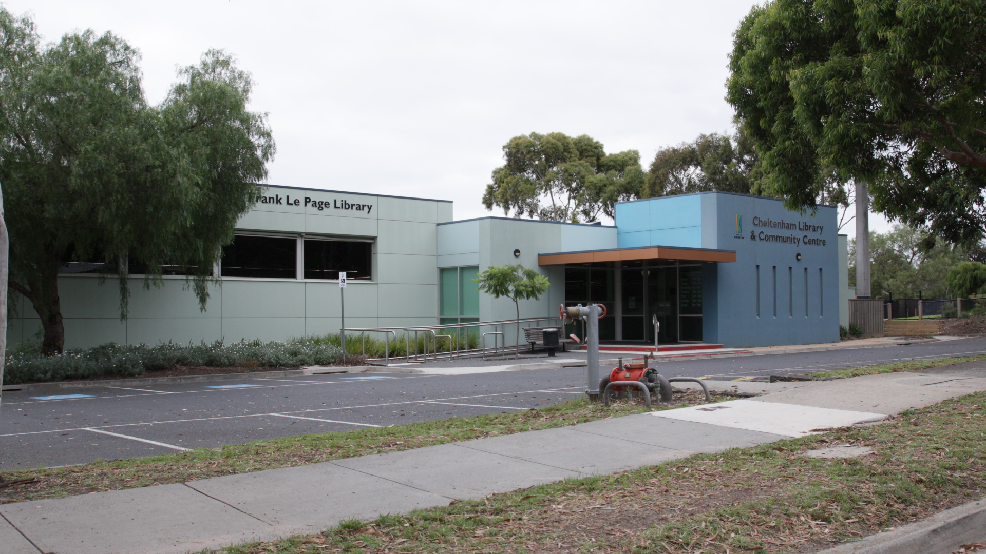 Kingston Library, Victoria Australia.